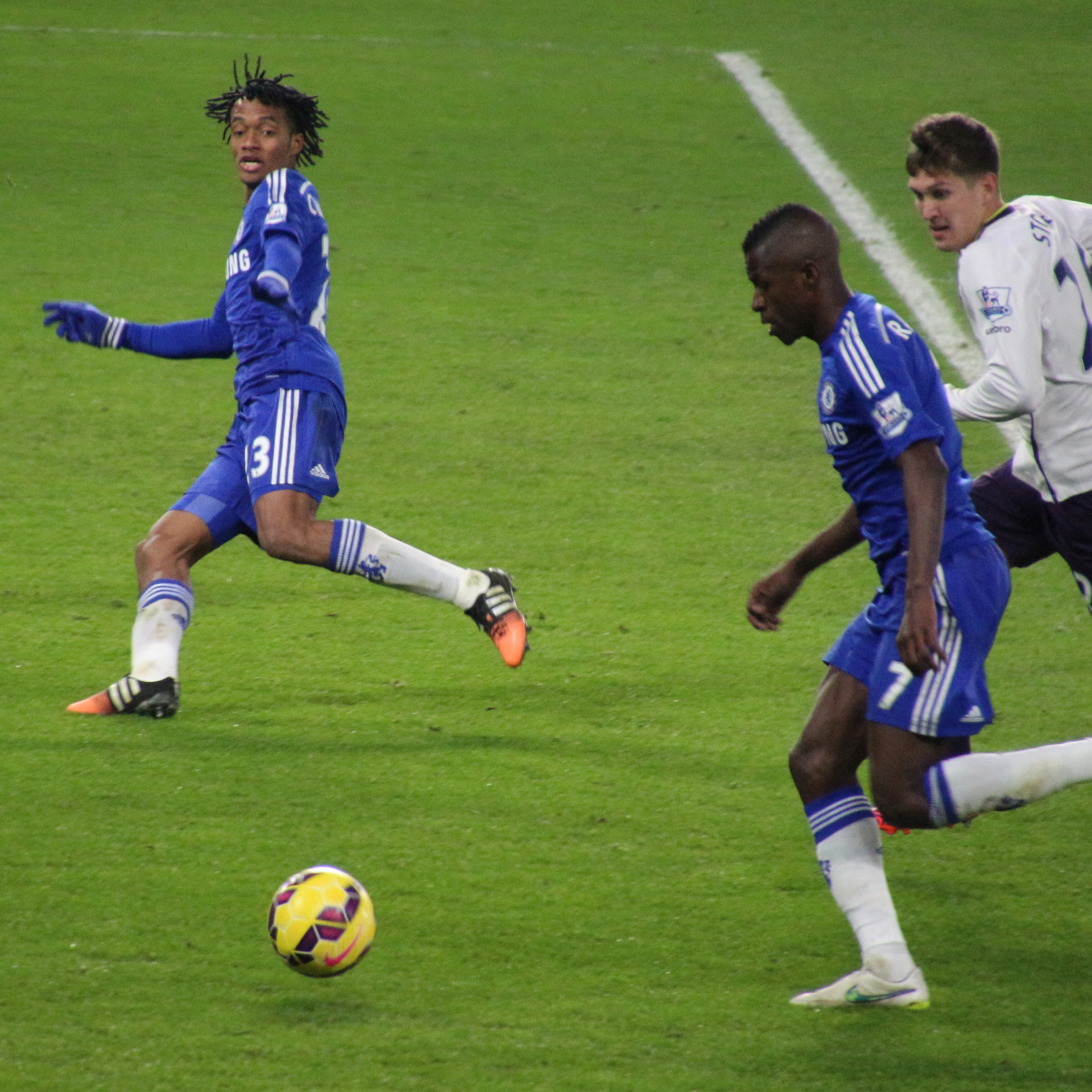 Chelsea 1 Everton 0